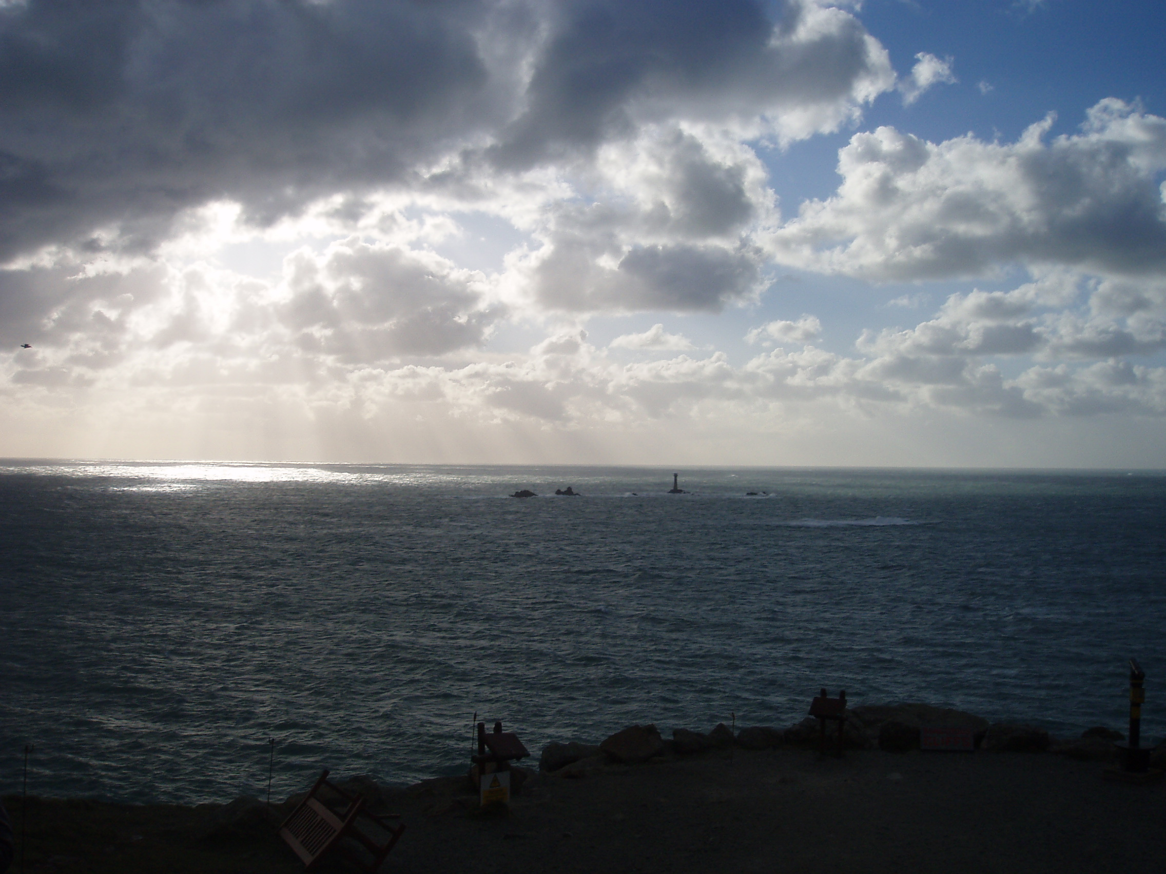 Land's End, looking west. Cornwall, UK.